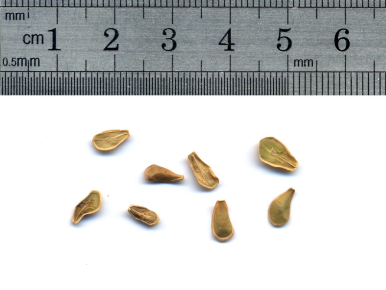 Seeds of Fockea edulis scanned with size information